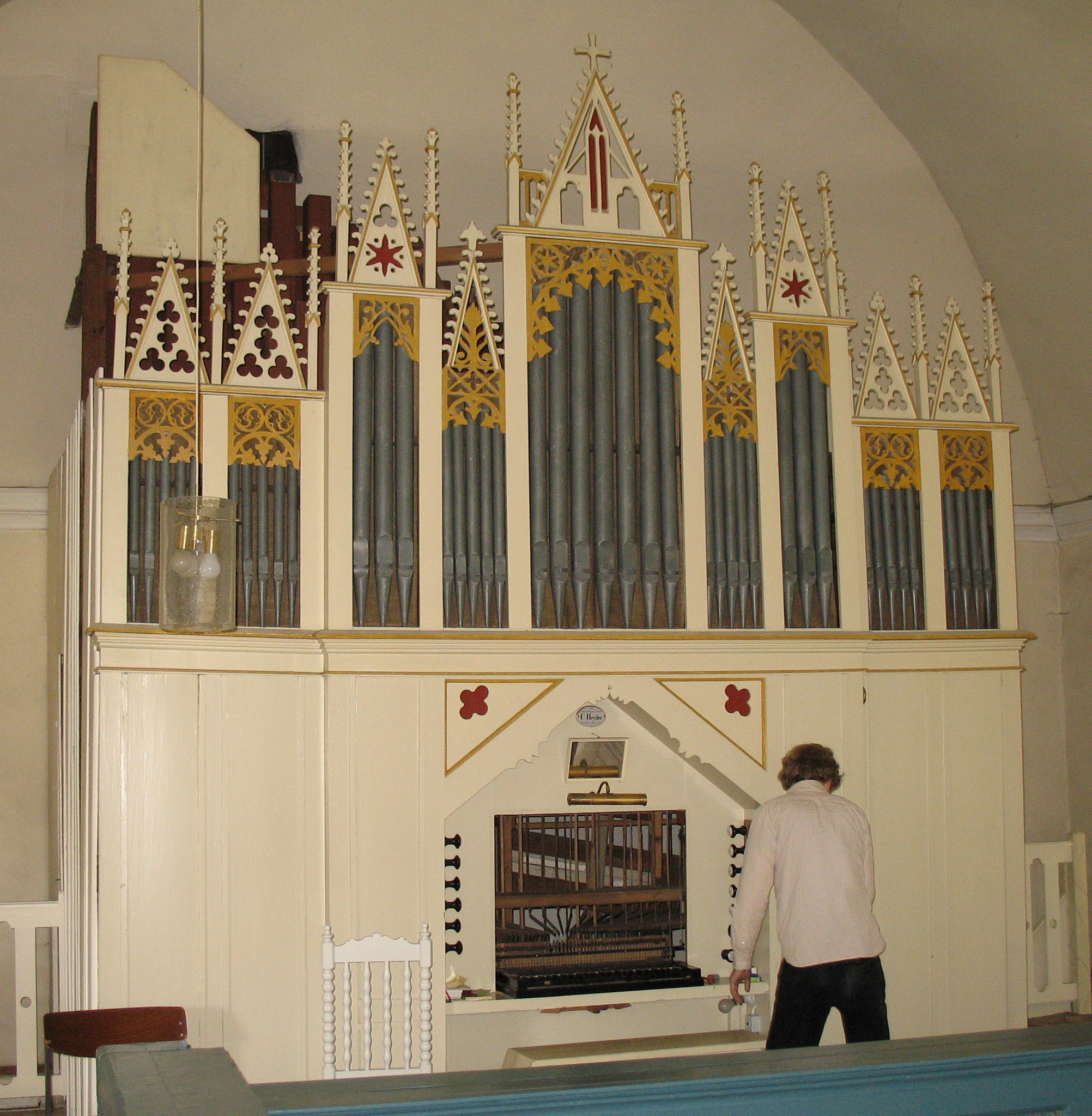 Organ in Helstorf